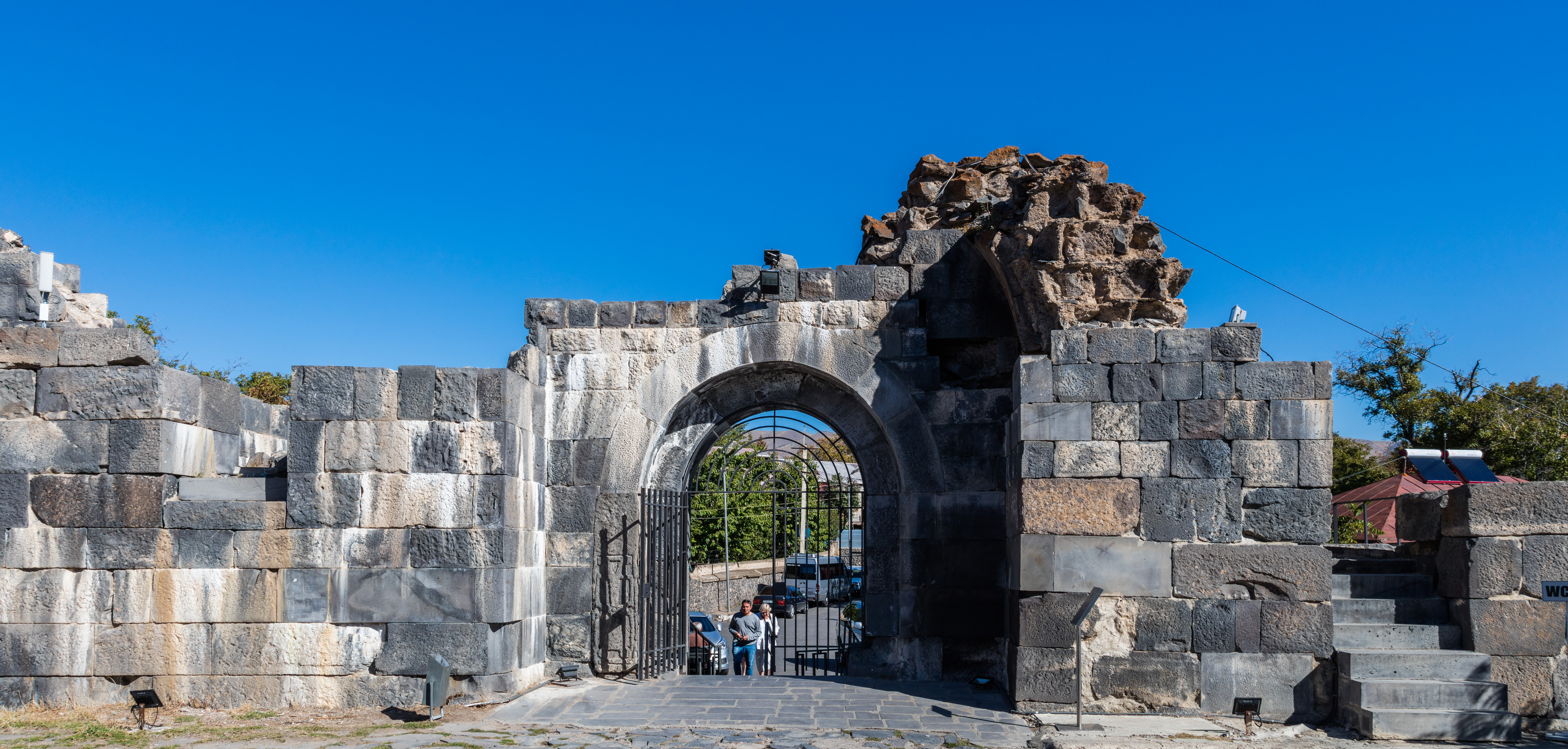 Garni Temple, Armenia